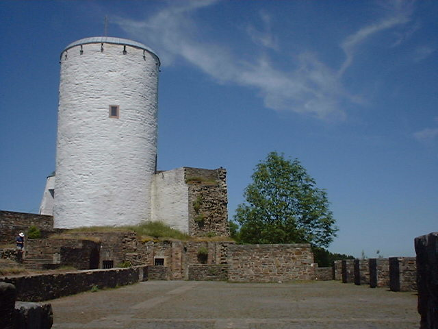 Reifferscheid Castle in Hellentahl, keep